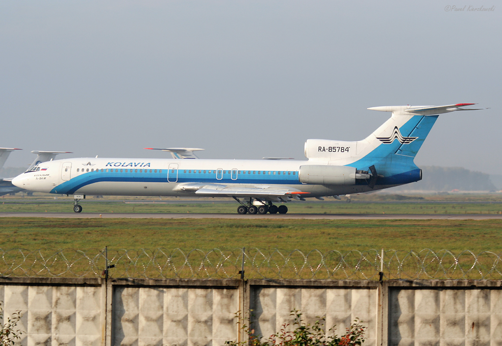 Kolavia Tupolev Tu-154M RA-85784 arrives at Moscow-Domodedovo Airport